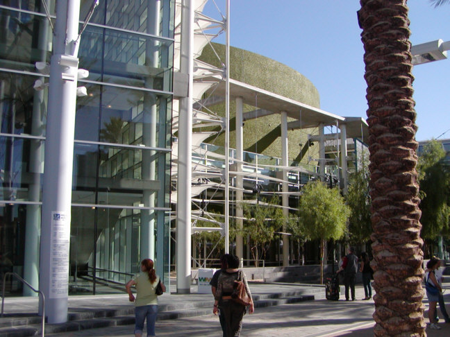 Mesa Arts Center, Mesa, Arizona, November 2006.